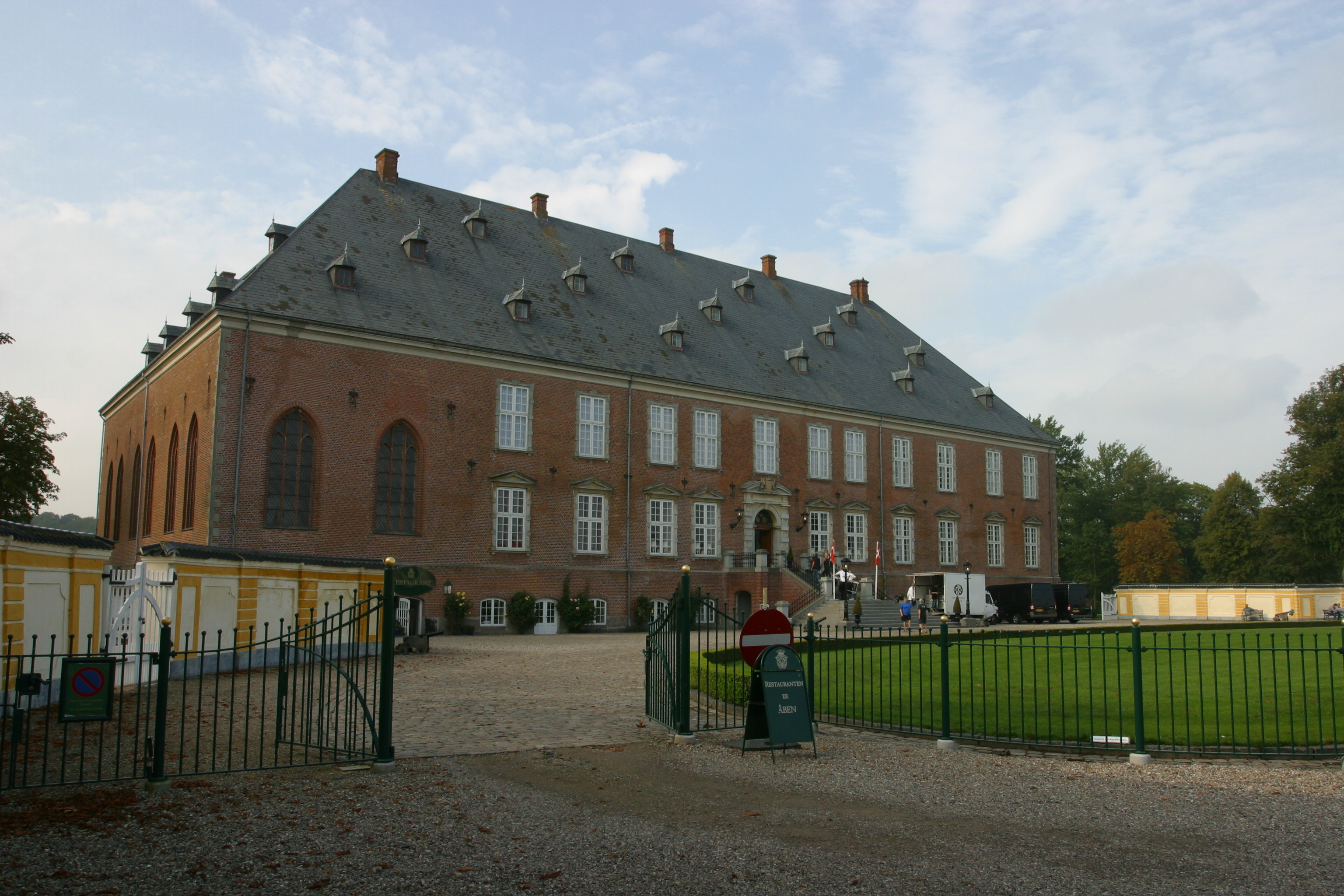 Picture of Valdermars Slot